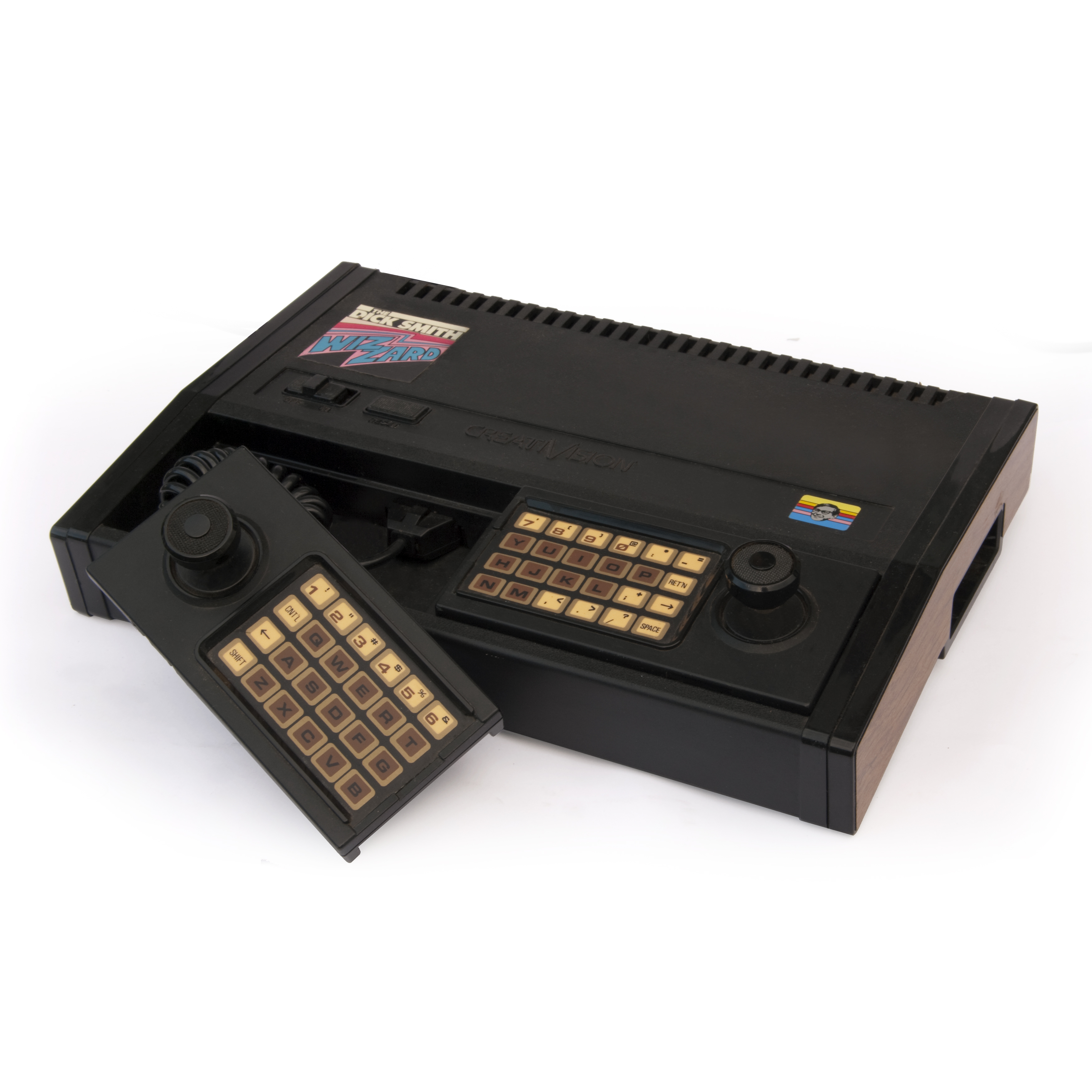 A Dick Smith Wizzard video game console. Also known as a CreatiVision, which was rebranded into a number of different versions - the Wizzard being the one available in Australia. Along with the video game function, the Wizzard/CreatiVision had a full QWERTY keyboard between the two game controls, and could serve as a home computer.